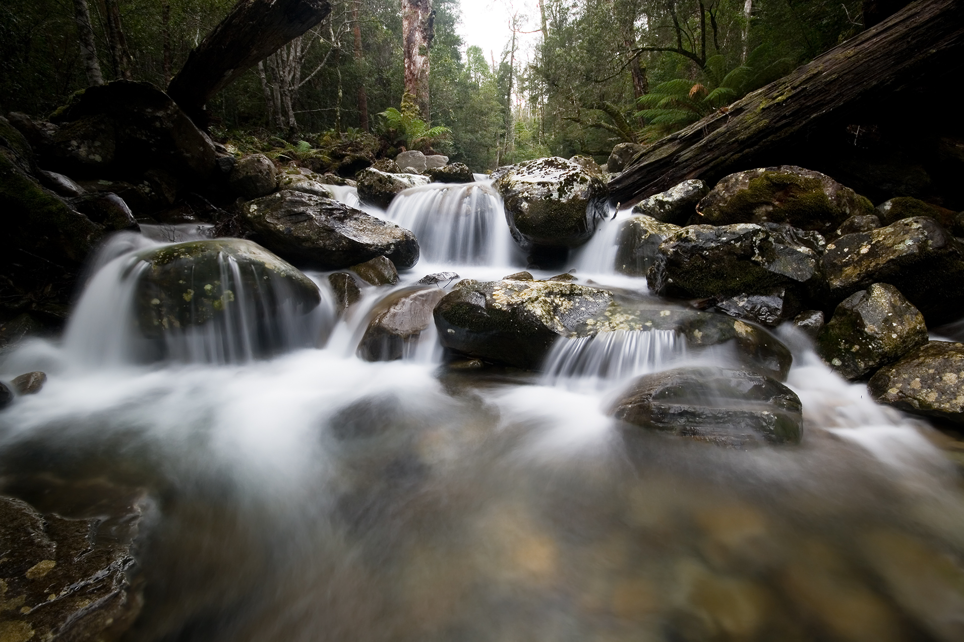 Mother Cummings Rivulet, Meander Forest Reserve, Tasmania, Australia Camera data Camera Canon EOS 400D Lens Sigma 10-20mm F4-5.6 EX DC HSM Filter 4x ND Filter and Circular Polarizer Focal length 10 mm Aperture f/11 Exposure time 2.5 s Sensivity ISO 100